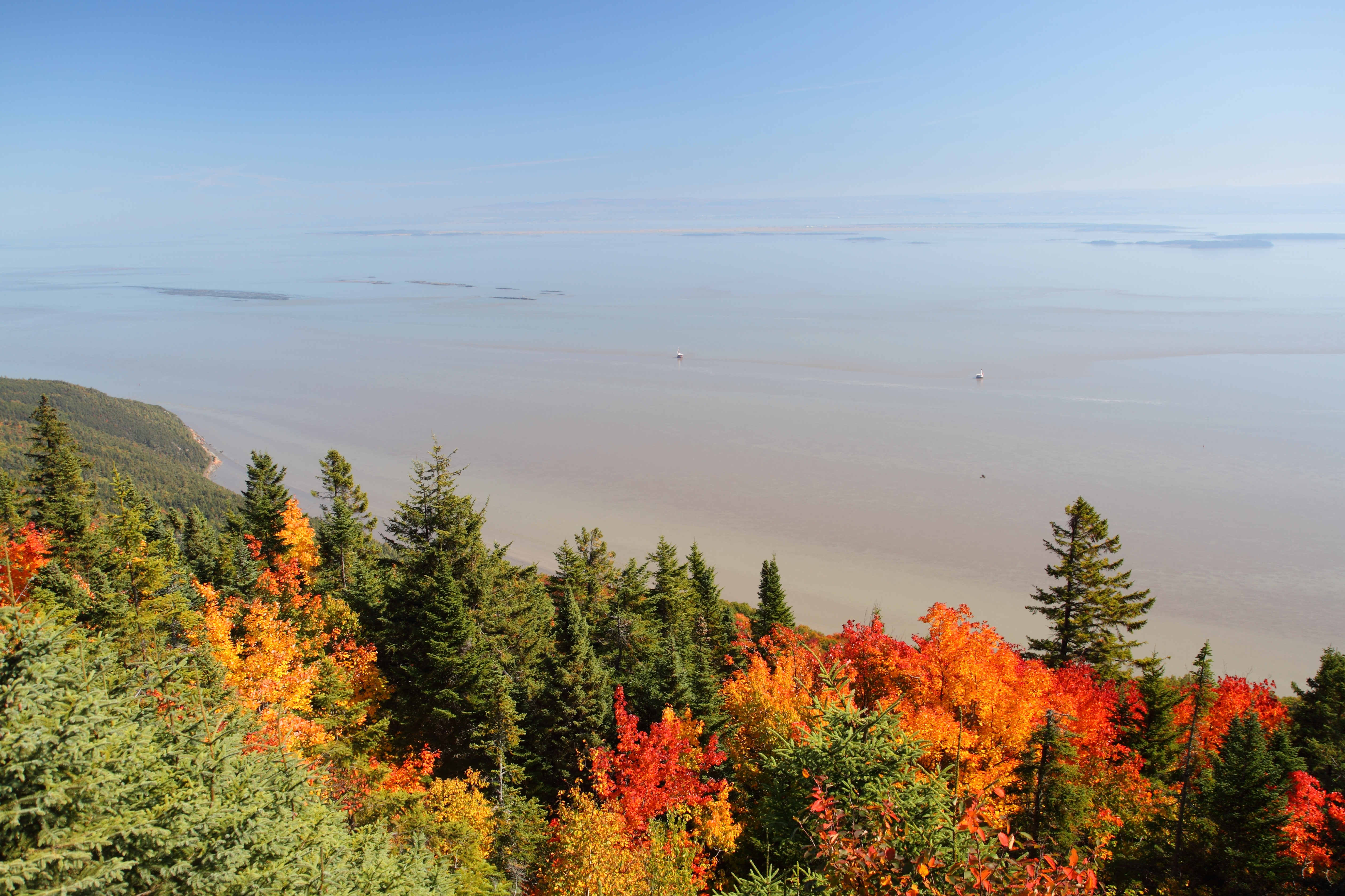 La Cime lookout, Cap Tourmente National Wildlife Area, Quebec, Canada